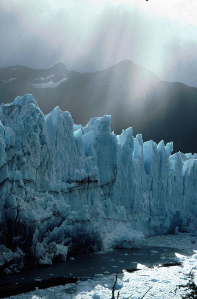 Perito Moreno Glacier, in Los Glaciares National Park, southern Argentina